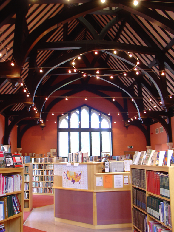 The Library of the Royal Grammar School Worcester, Eld Hall.